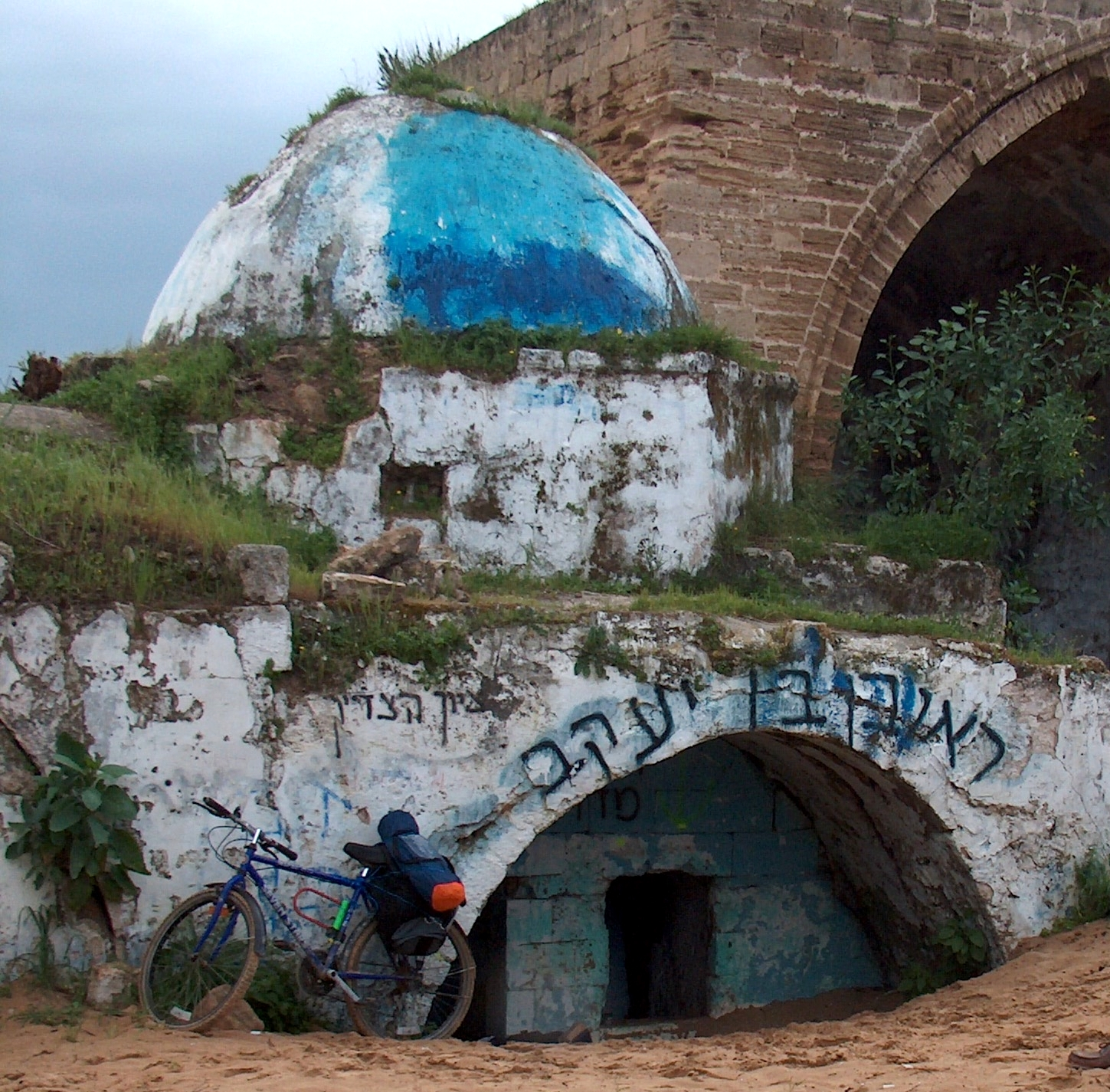 Reuben's tomb